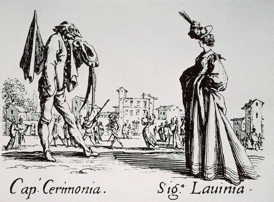 An etching